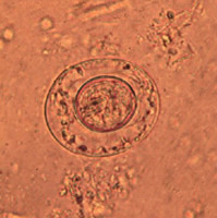 Egg of Hymenolepis nana. These eggs are oval and smaller than those of H. diminuta, their size being 30 to 55 µm. On the inner membrane are two poles, from which 4 to 8 polar filaments spread out between the two membranes. The oncosphere has six hooks (seen as dark lines at 8 o'clock).